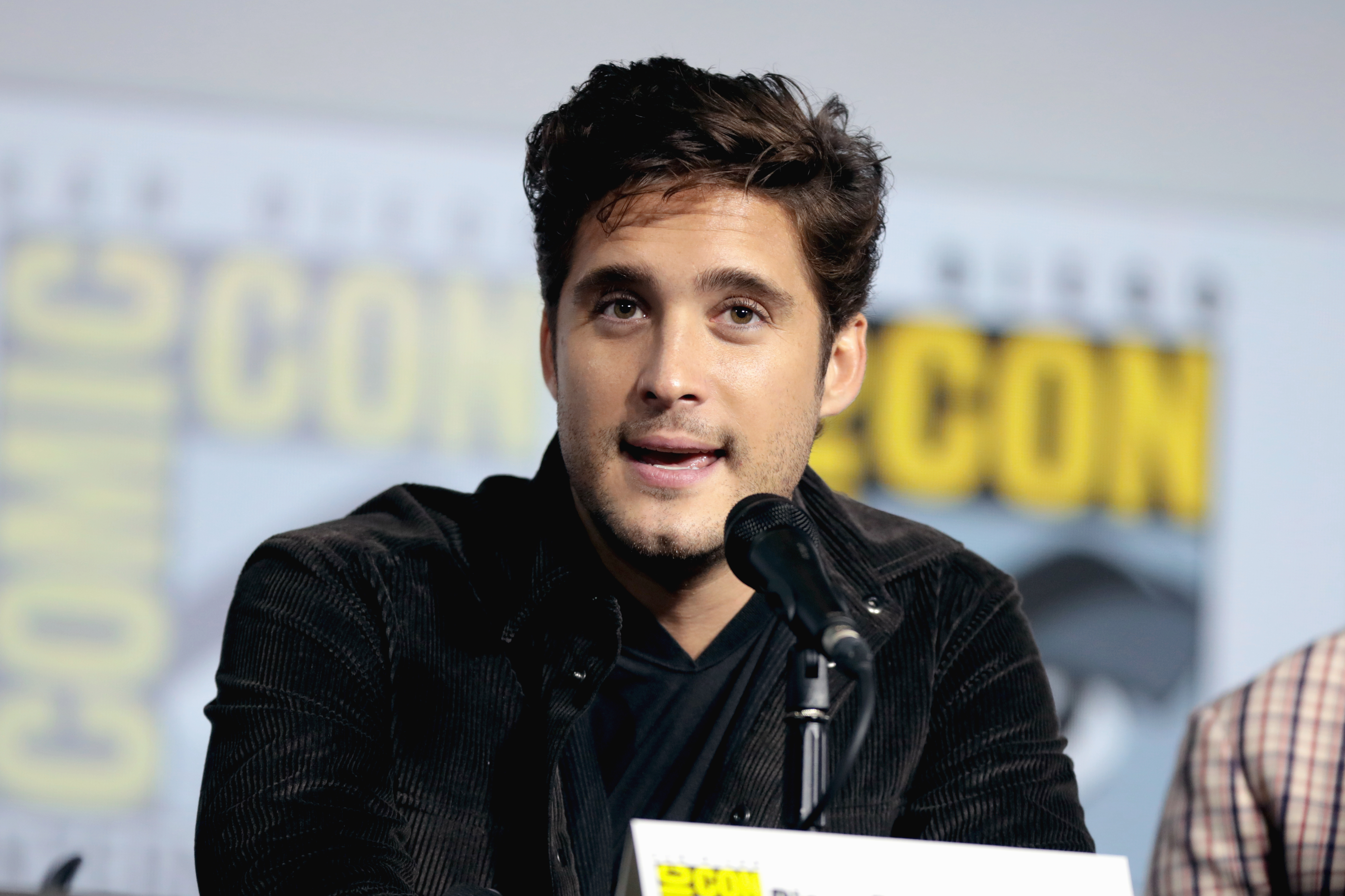 Diego Boneta speaking at the 2019 San Diego Comic Con International, for "Terminator: Dark Fate", at the San Diego Convention Center in San Diego, California.